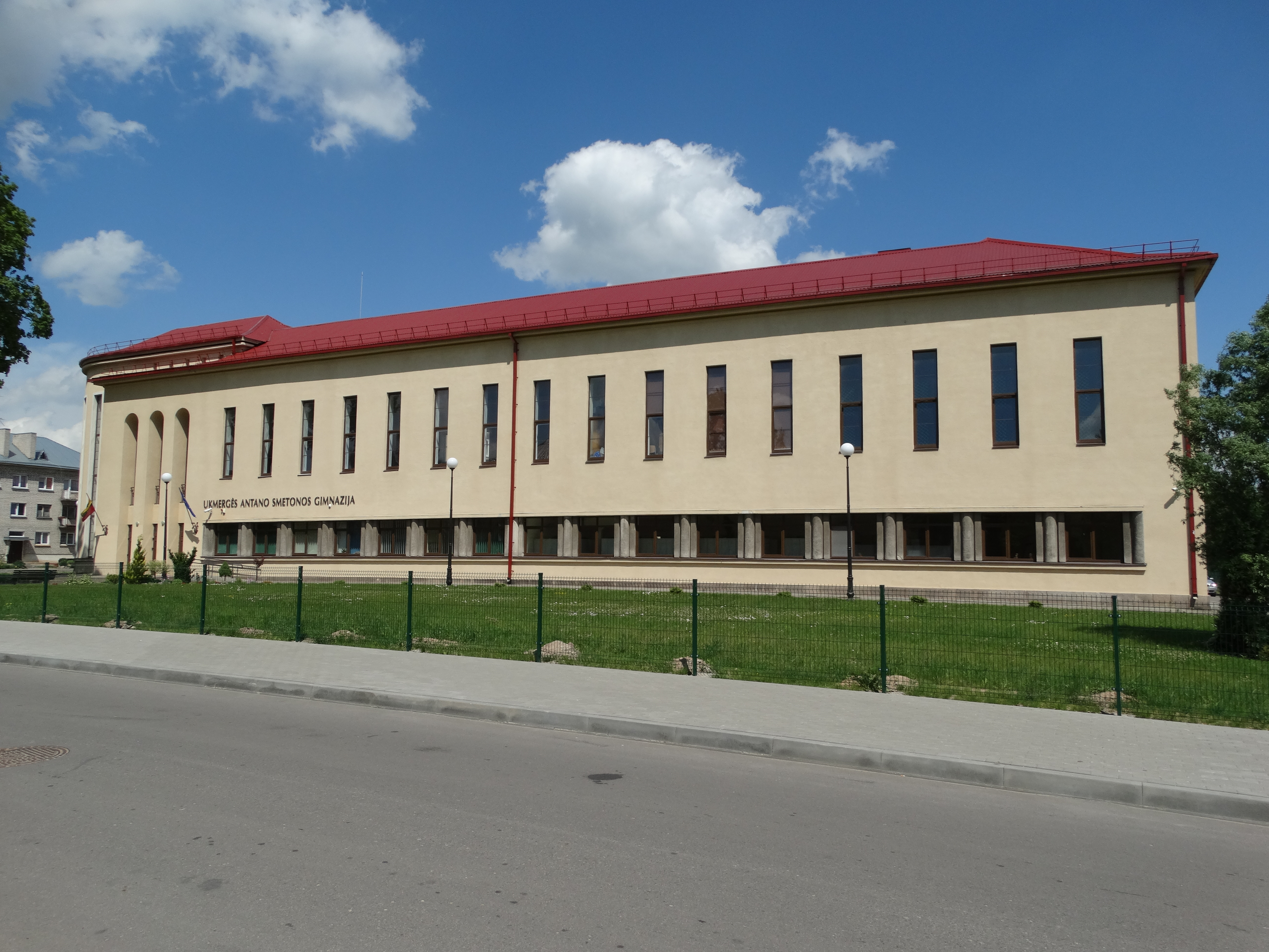 A. Smetona Gymnasium, Ukmergė, Lithuania